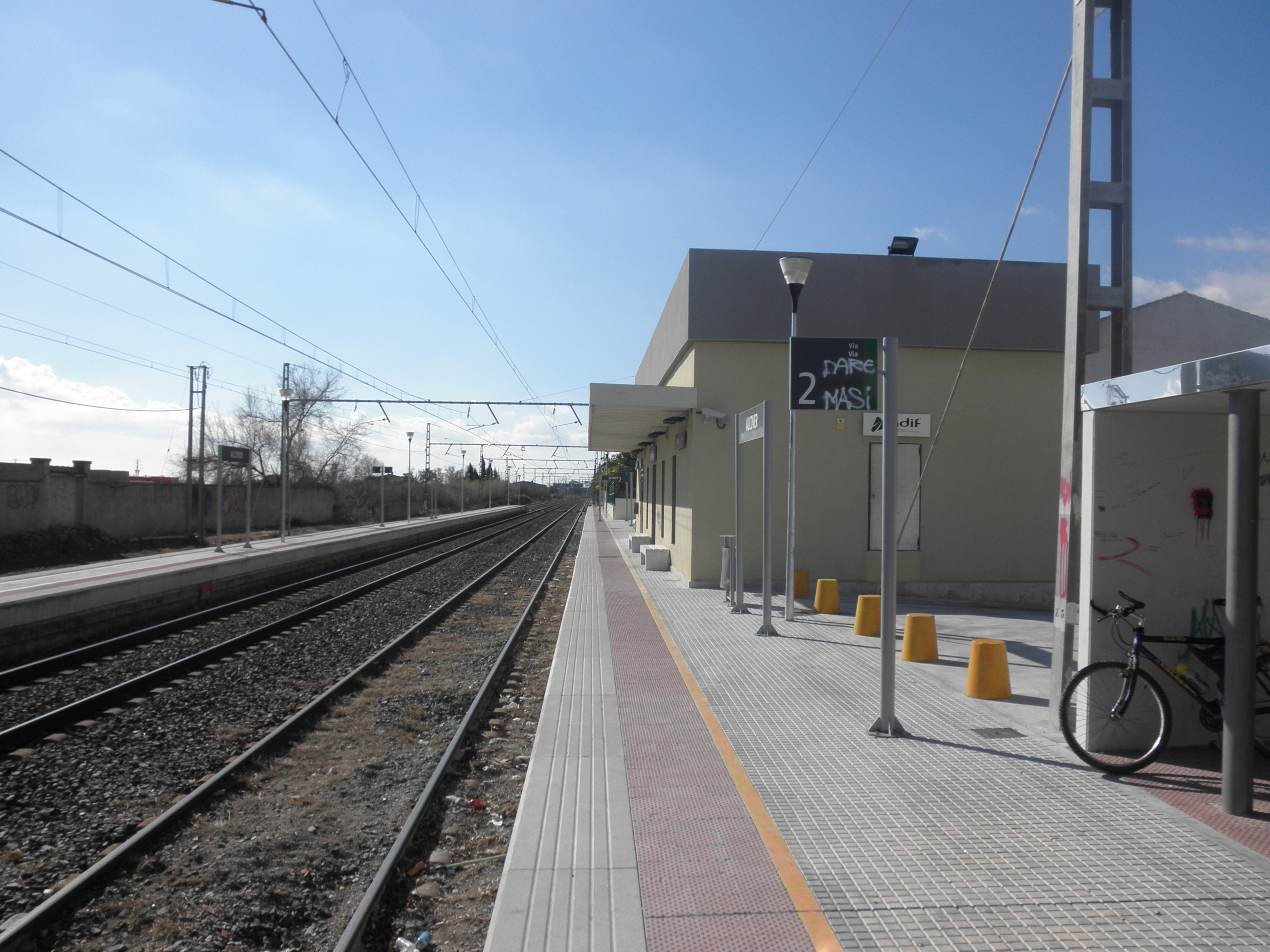 Train station of Alcover.